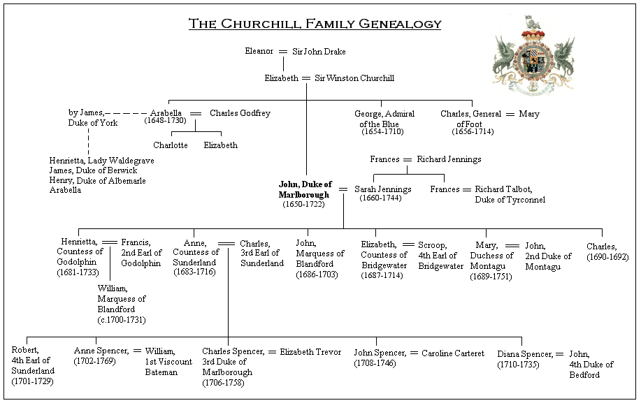 This image is selfmade